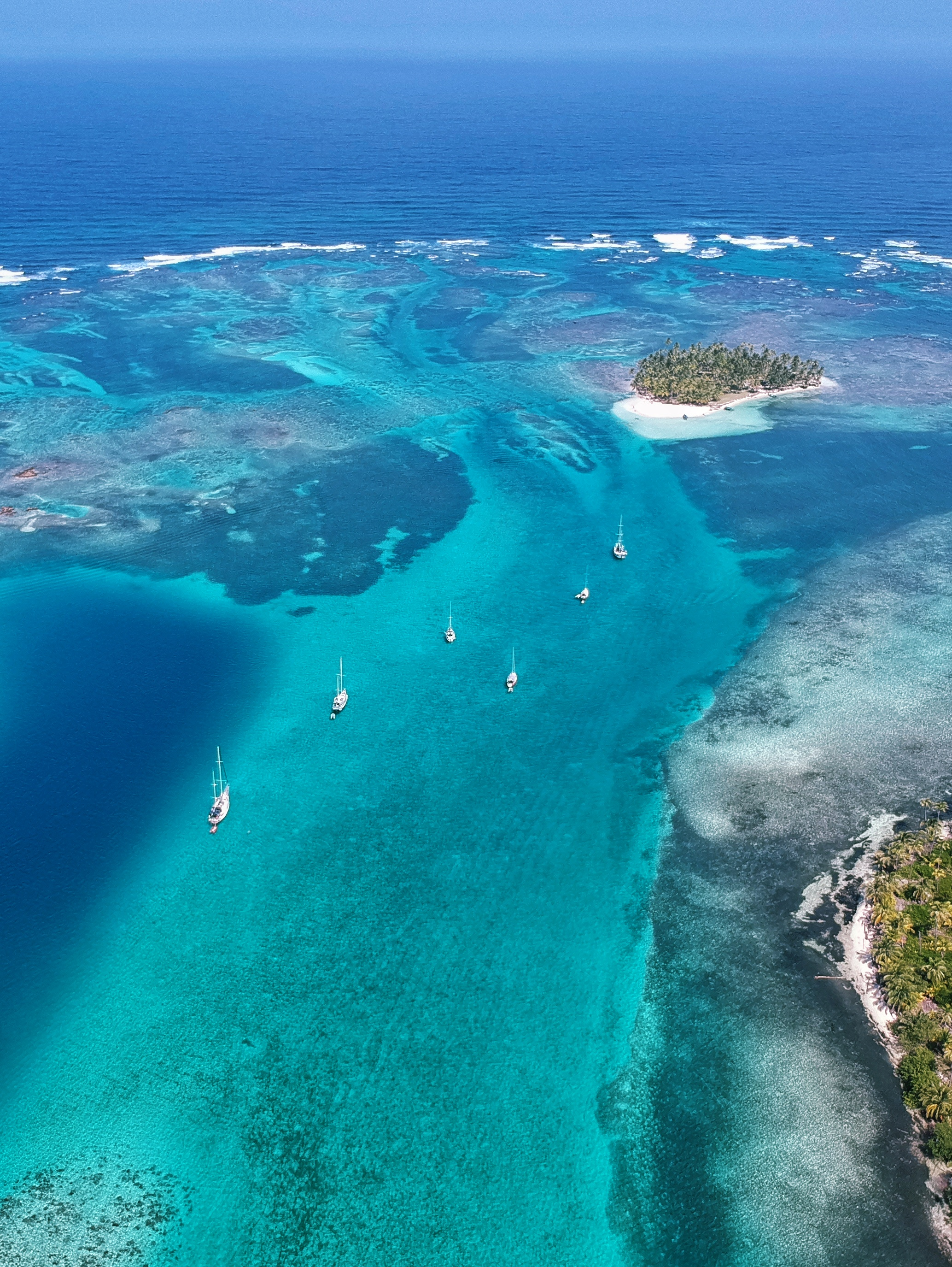 Deuth Keys, Guna Yala Province